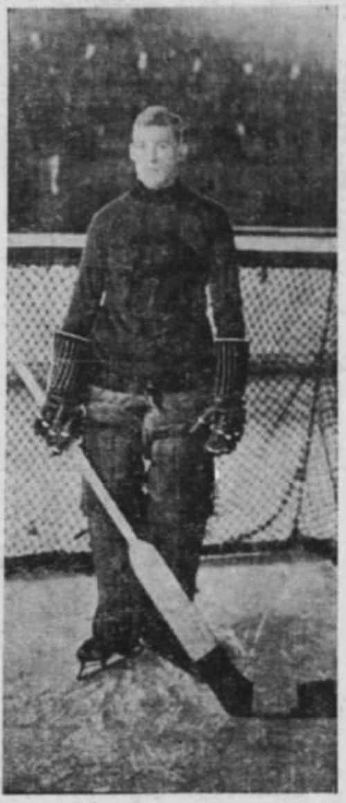 American-Canadian ice hockey goaltender Tommy Murray with the Portland Rosebuds.